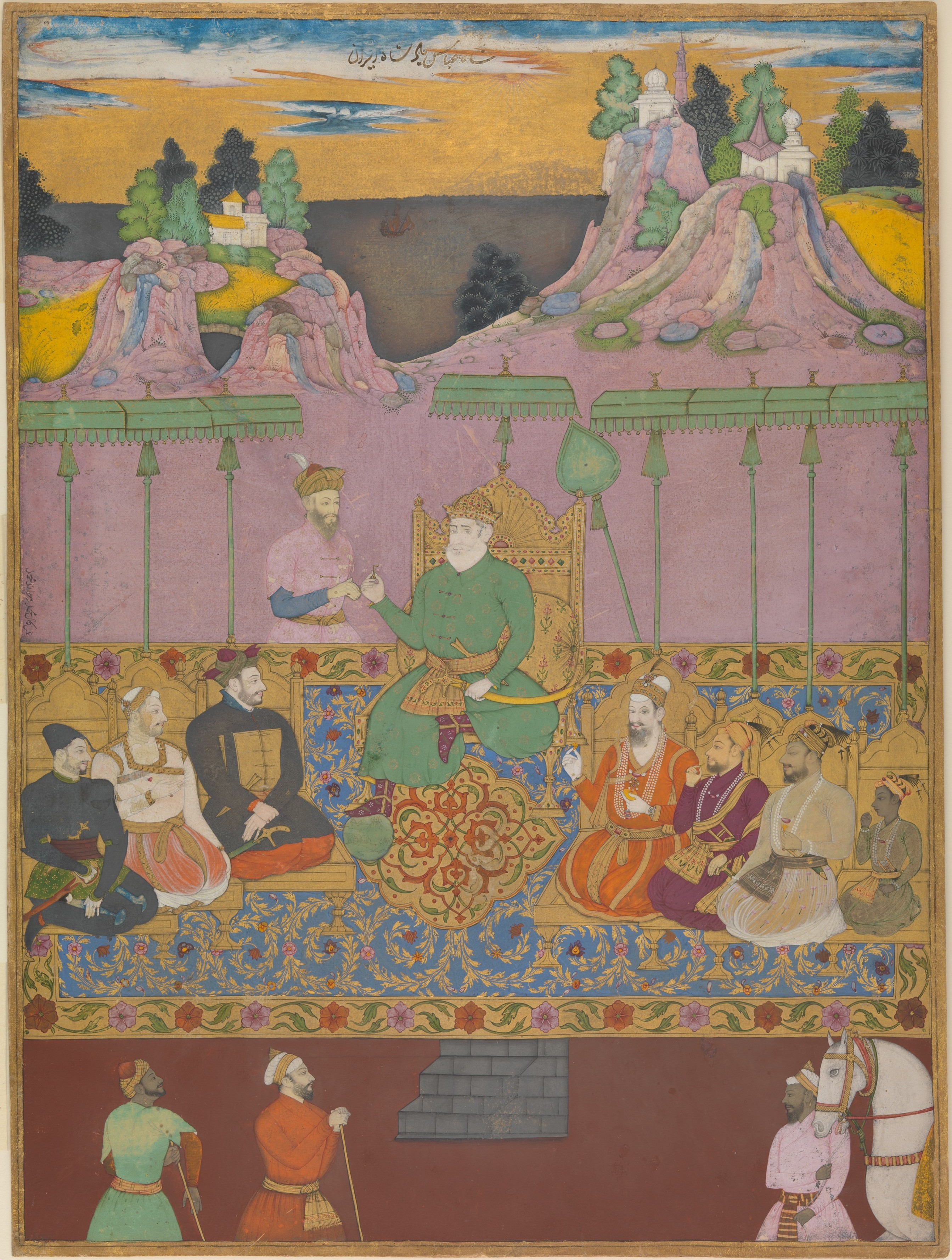 The House of Bijapur: Album leaf, ca. 1680 Kamal Muhammad; Chand Muhammad Attributed to India, Deccan, Bijapur Ink, opaque colors, gold, and silver on paper 16 1/4 x 12 13/16 in. (41.3 x 30.9 cm) Purchase, Gifts in memory of Richard Ettinghausen; Schimmel Foundation Inc., Ehsan Yarshater, Karekin Beshir Ltd., Margaret Mushekian, Mr. and Mrs. Edward Ablat and Mr. and Mrs. Jerome A. Straka Gifts; The Friends of the Islamic Department Fund; Gifts of Mrs. A. Lincoln Scott and George Blumenthal, Bequests of Florence L. Goldmark, Charles R. Gerth and Millie Bruhl Frederick, and funds from various donors, by exchange; Louis E. and Theresa S. Seley Purchase Fund for Islamic Art and Rogers Fund, 1982 (1982.213)